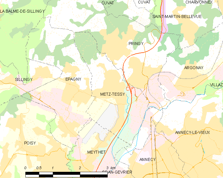 Map of French municipality Metz-Tessy